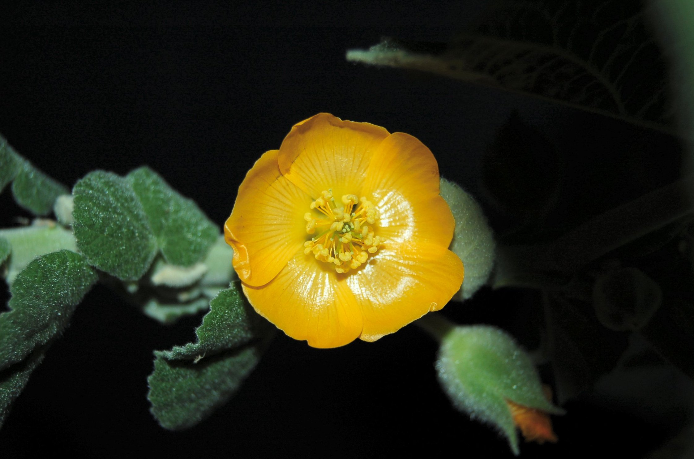 Sida cordifolia flower, courtesy of Paul Taylor, Amazonia Exotics